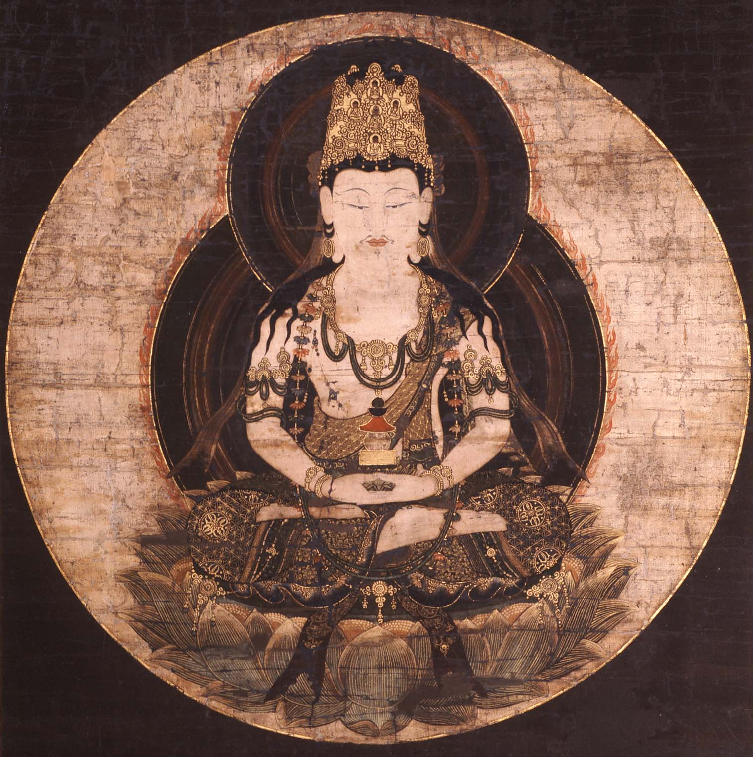 Miroku Bosatsu, Chōgenji, Obama, Fukui, Japan